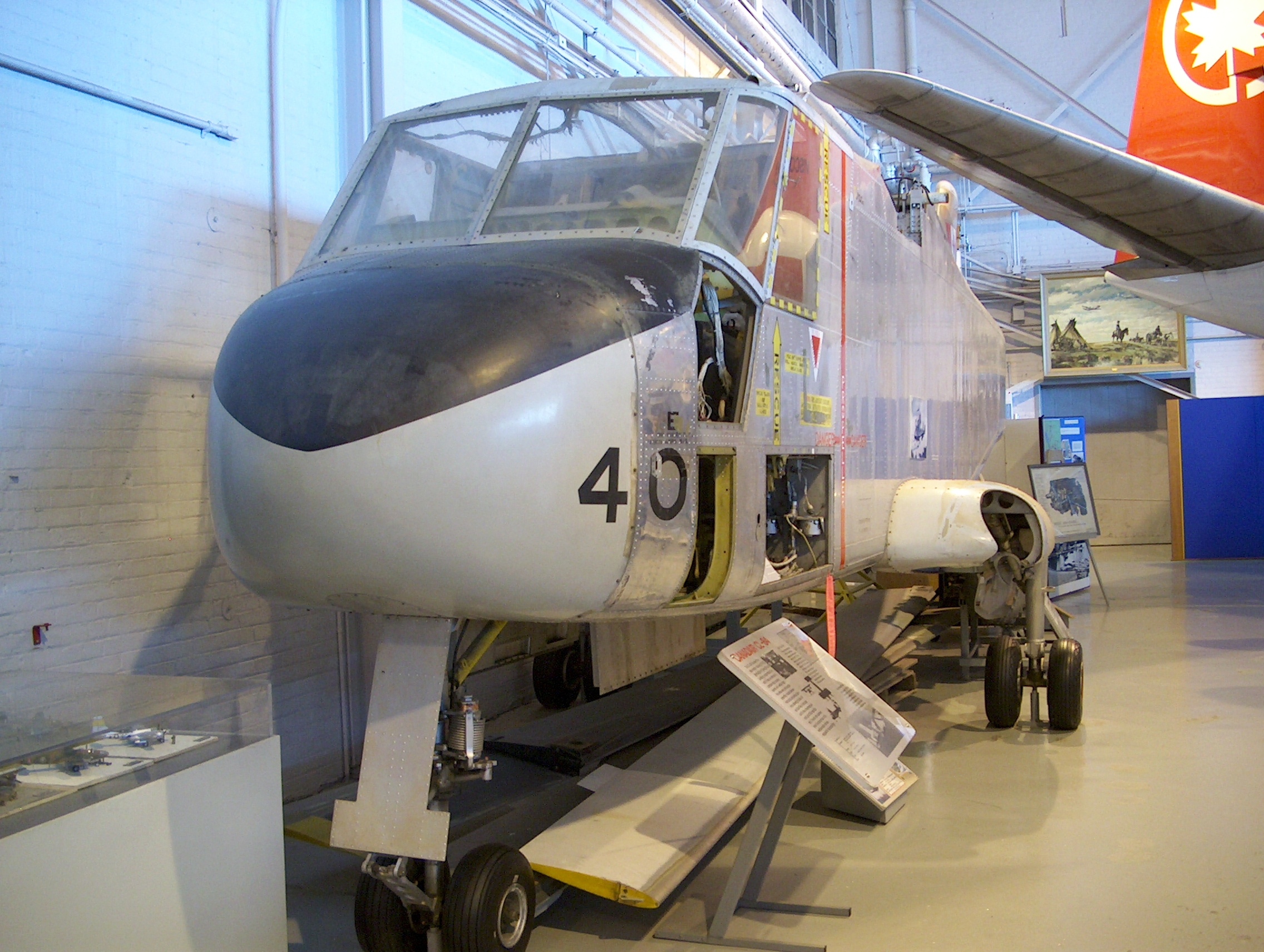 Canadair CL-84-03 at the Western Canada Aviation Museum.